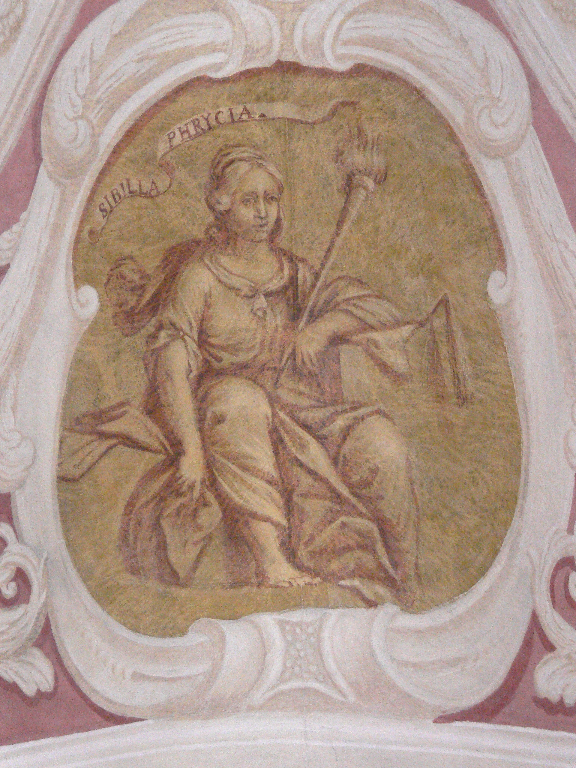 Pfarrkirchen i.M. Parish church: Fresco - Sibylla Phrycia.